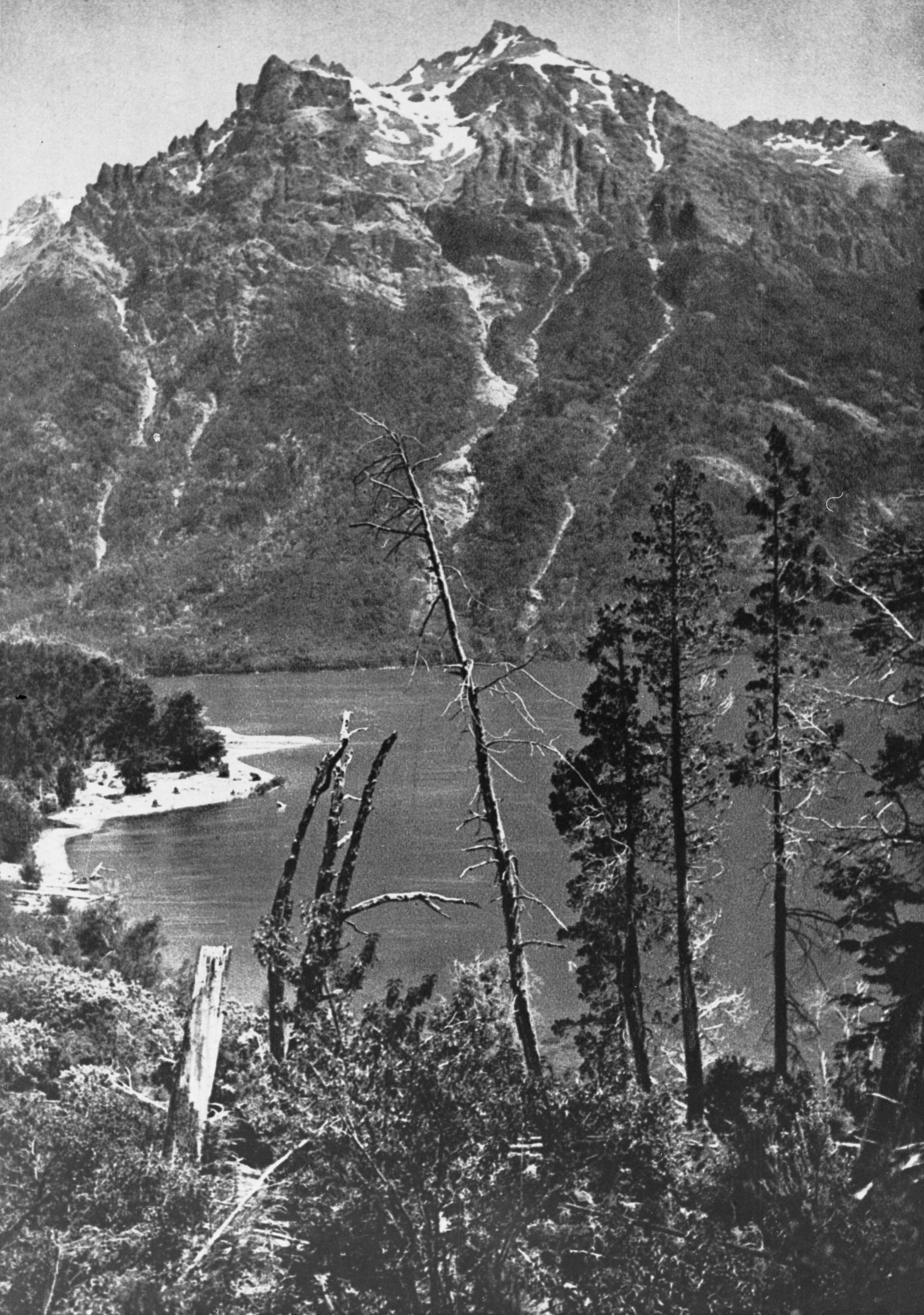 Taken from photograph.